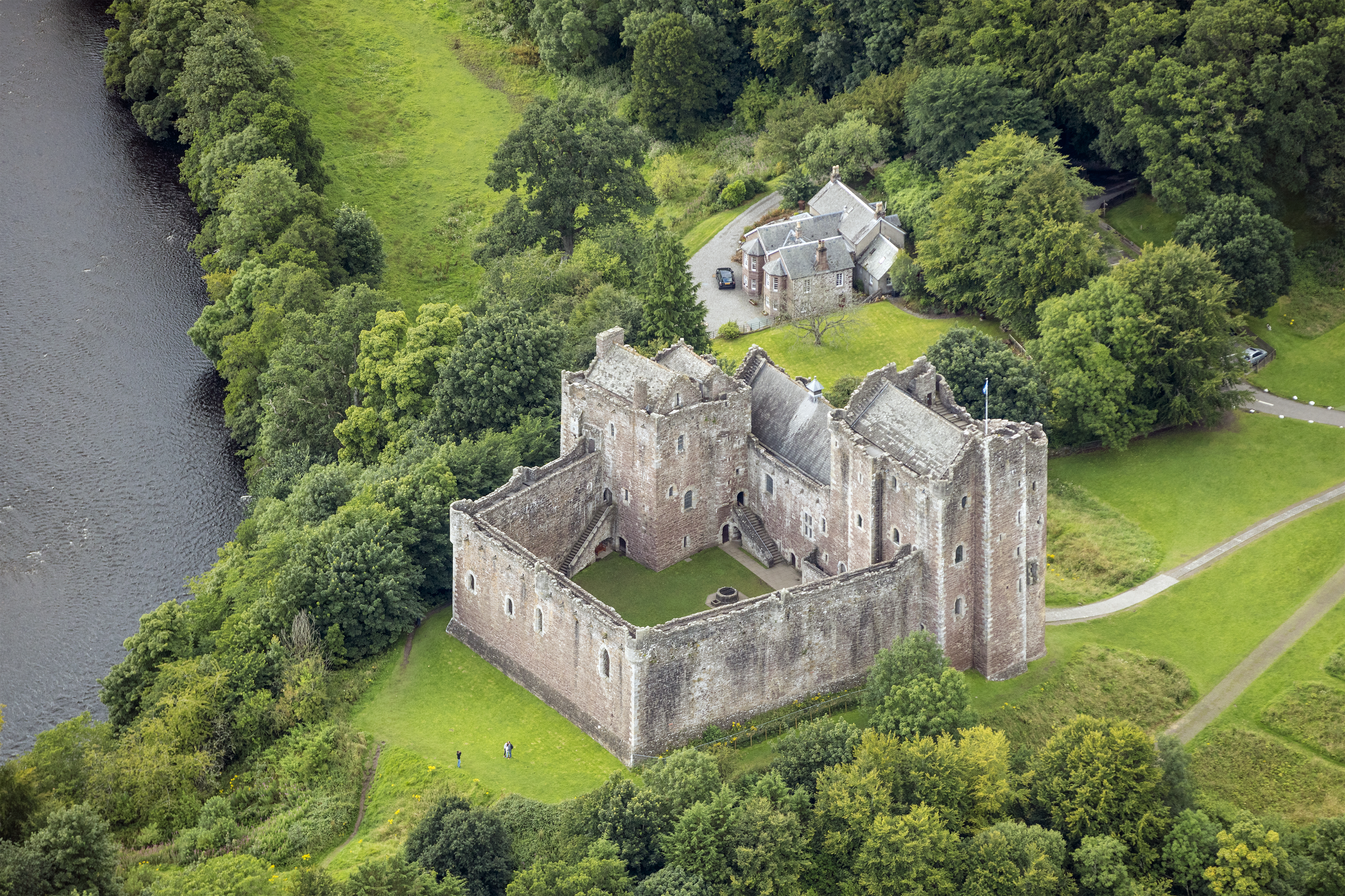 Aerial view of Doune Castle and Castle keeper's cottage, Doune, Scotland Wikidata has entry Q1252715 with data related to this item. Wikidata has entry Q17836193 with data related to this item.